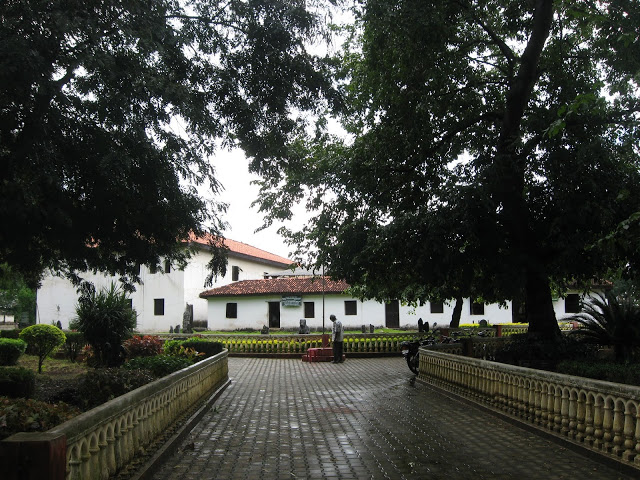 Sculptures in the courtyard of the Shivappa Nayaka Palace Museum